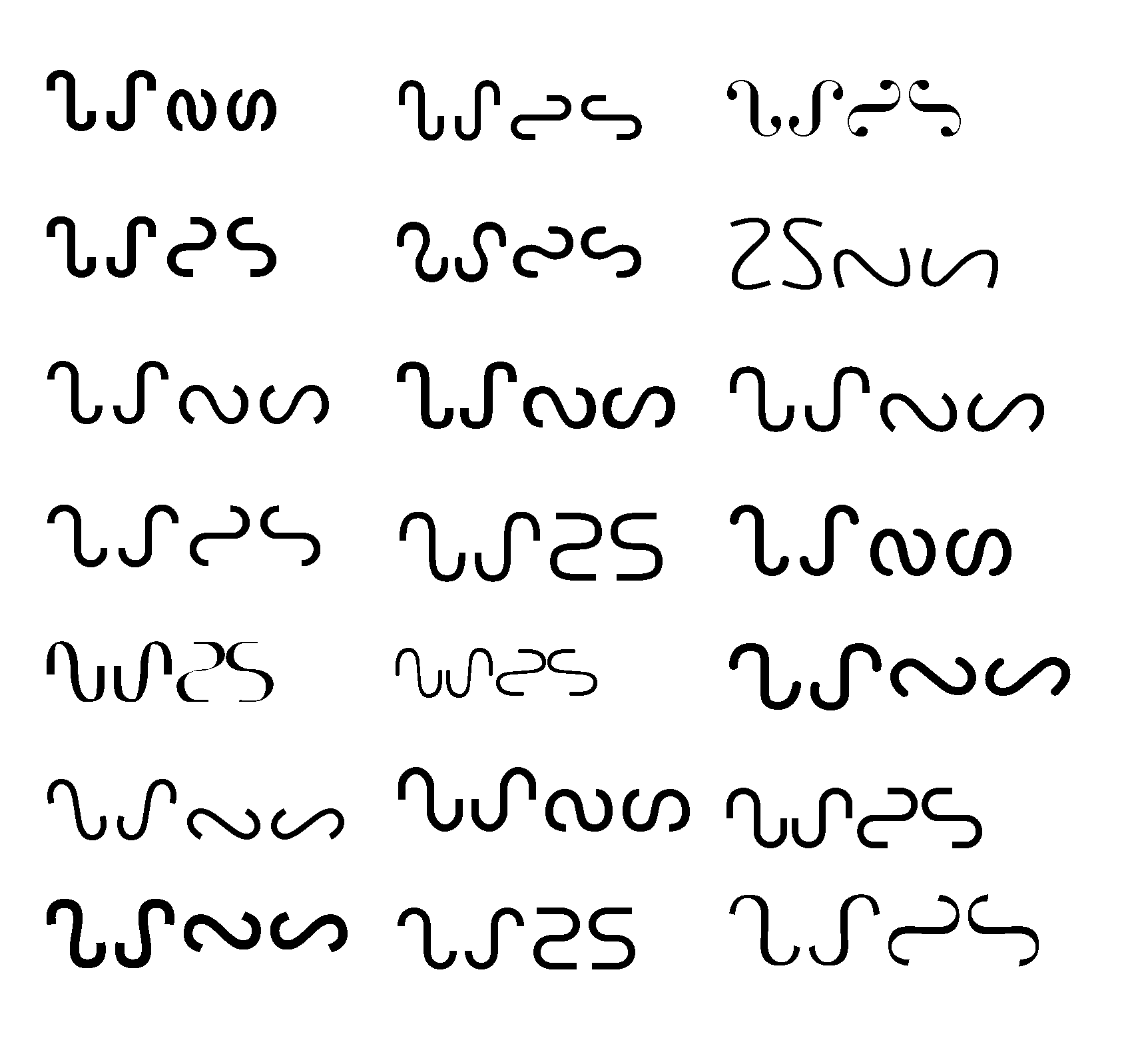 Just as the Latin Small Letter A (with a small bowl and an ear [Double-storey Minisculine A] v. large bowl and no ear [Single-storey Minisculine A]) and Latin Small Letter G (with a raised small bowl, terminal ear, and a large descender loop [Double-storey Minisculine G] v. large bowl, no ear, and a simple descender tail [Single-storey Minisculine G]) have varying presentation forms, likewise, Canadian Aboriginal Syllabics's SH-series vary. Twenty-one of the commonly seen SH-series variations shown. Typefaces are as follows. Left column: AboriginalSans (A), AboriginalSans (B) and (C), AboriginalSerif (A), AboriginalSerif (B), BallymunRO, BJCree UNI, Canada1500. Middle Column: CBSUCAS, Code2000 and Sun-ExtA, DejaVu Sans, Euphemia, EversonMono, FreeSans, Gadugi. Right Column: Kayases, Kisiska, Noto Sans Canadian Aboriginal, OskiEast, Pitabek, Quivira, RTF Canadian Syllabics.